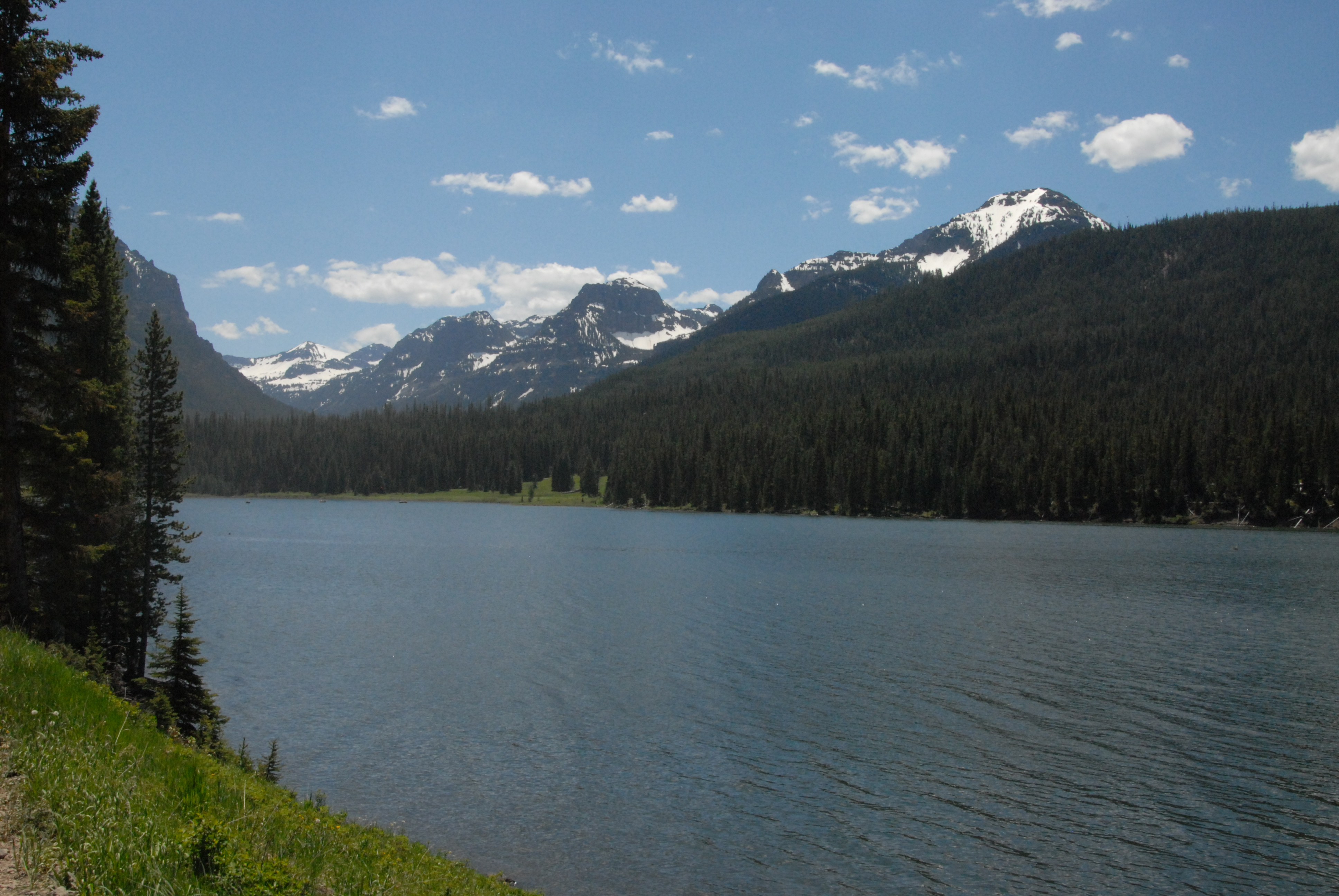 Hyalite Reservoir south of Bozeman; 06-28-08